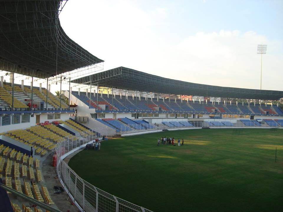 This is the picture of Fatorda football stadium located in Margao, Goa